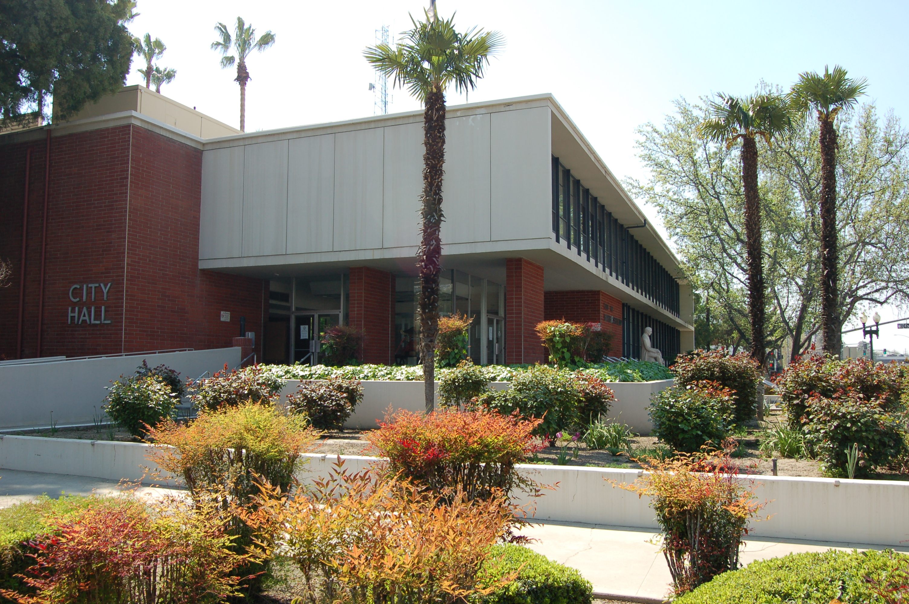 Bakersfield City Hall from intersection of Chester Ave. and Truxtun Ave, looking west.